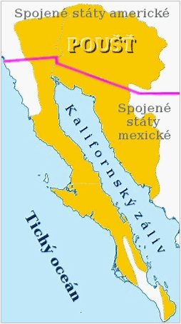 malapoust